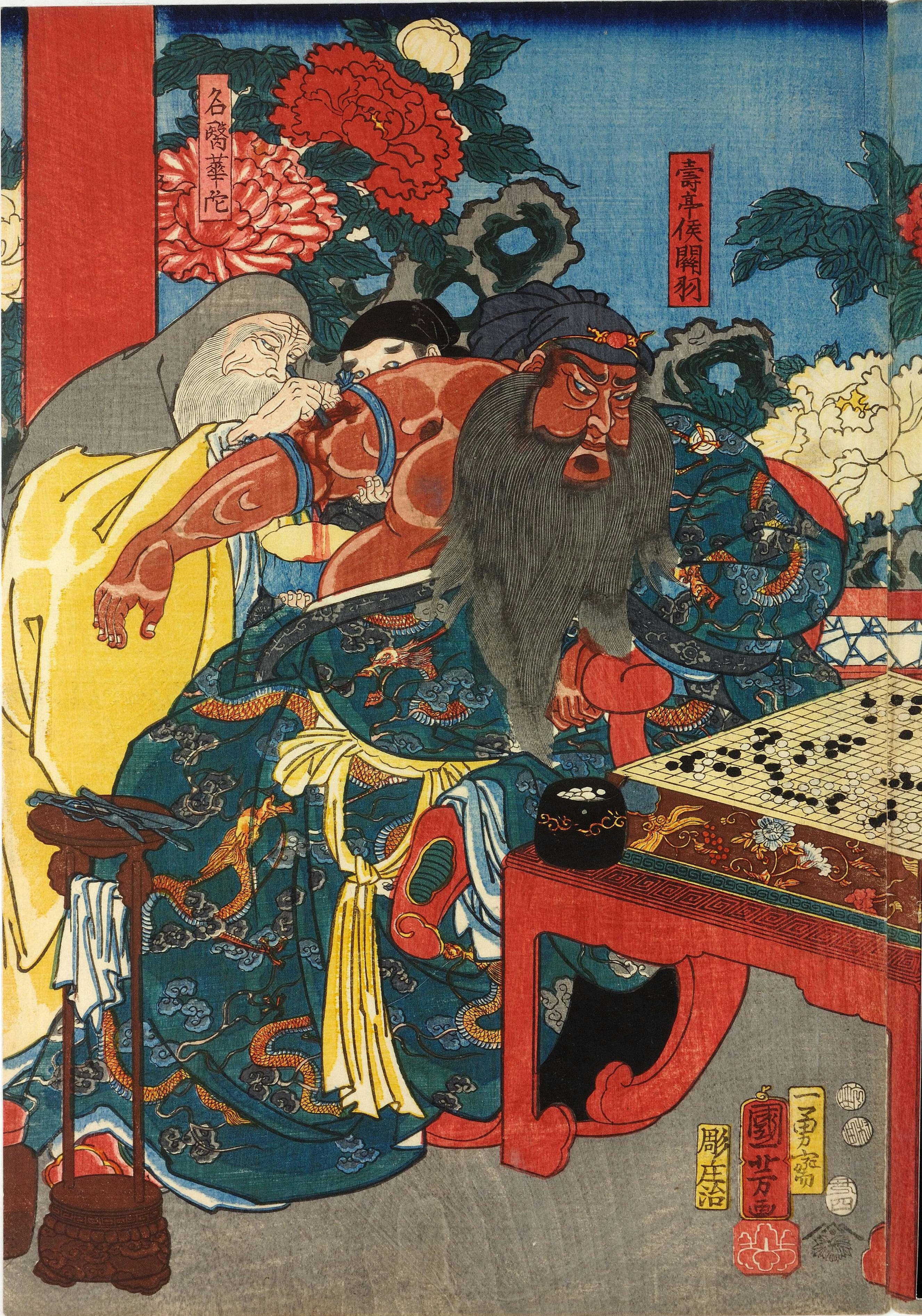 A wound from a poison arrow required the bone to be scraped. Without the use of anesthestic Guan Yu plays go to distract himself from the pain.